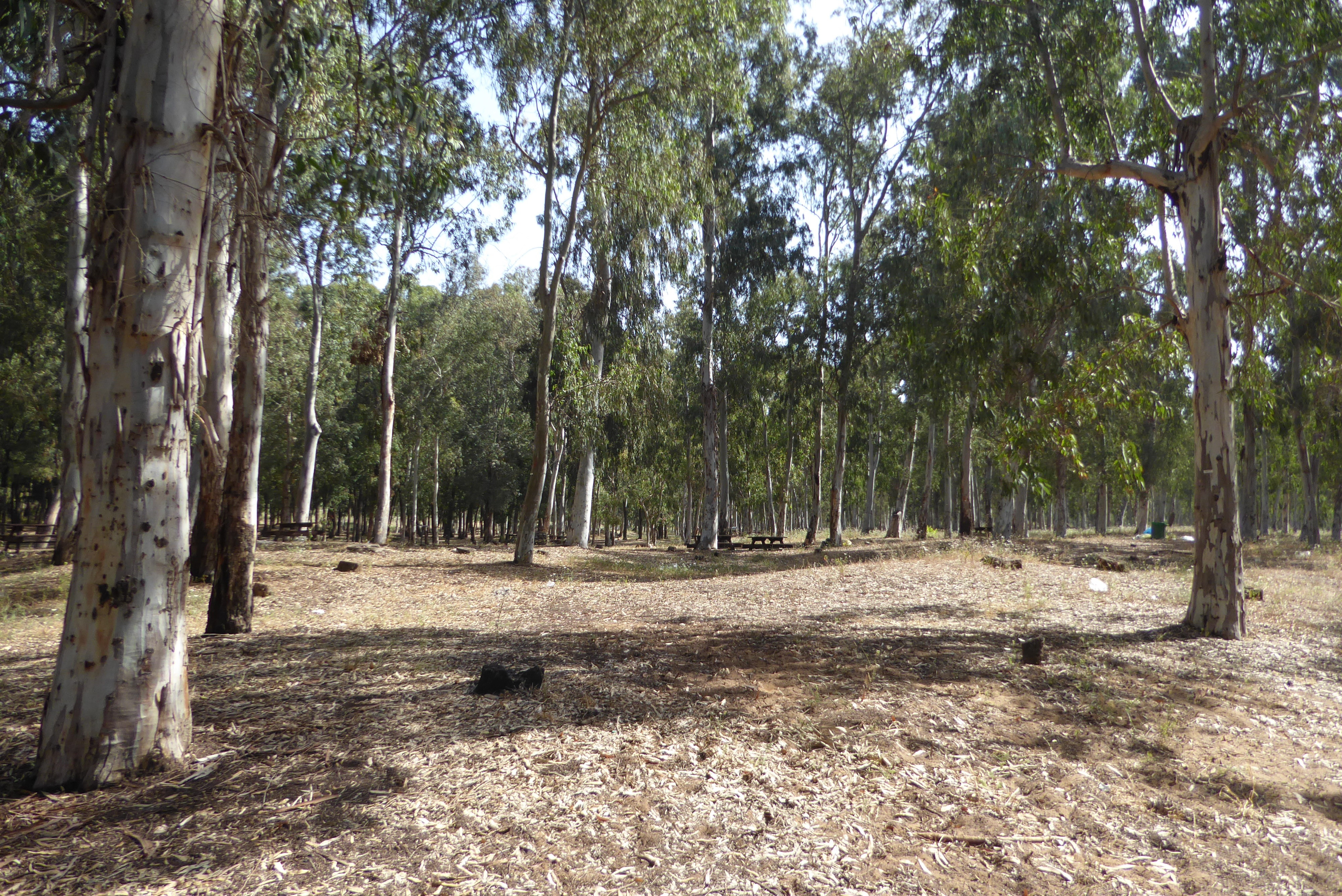 Alexander Stream